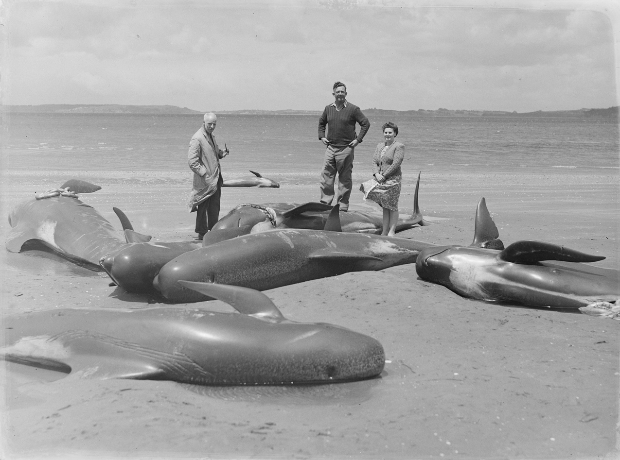 Two men and a woman stand amongst the whales. The man on the left smokes a pipe. The ocean stretches out behind them.